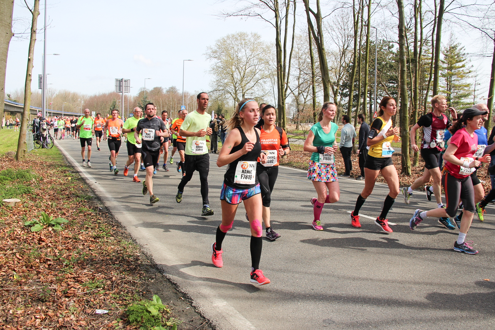 Women were not among the men's Marathon Rotterdam 2015